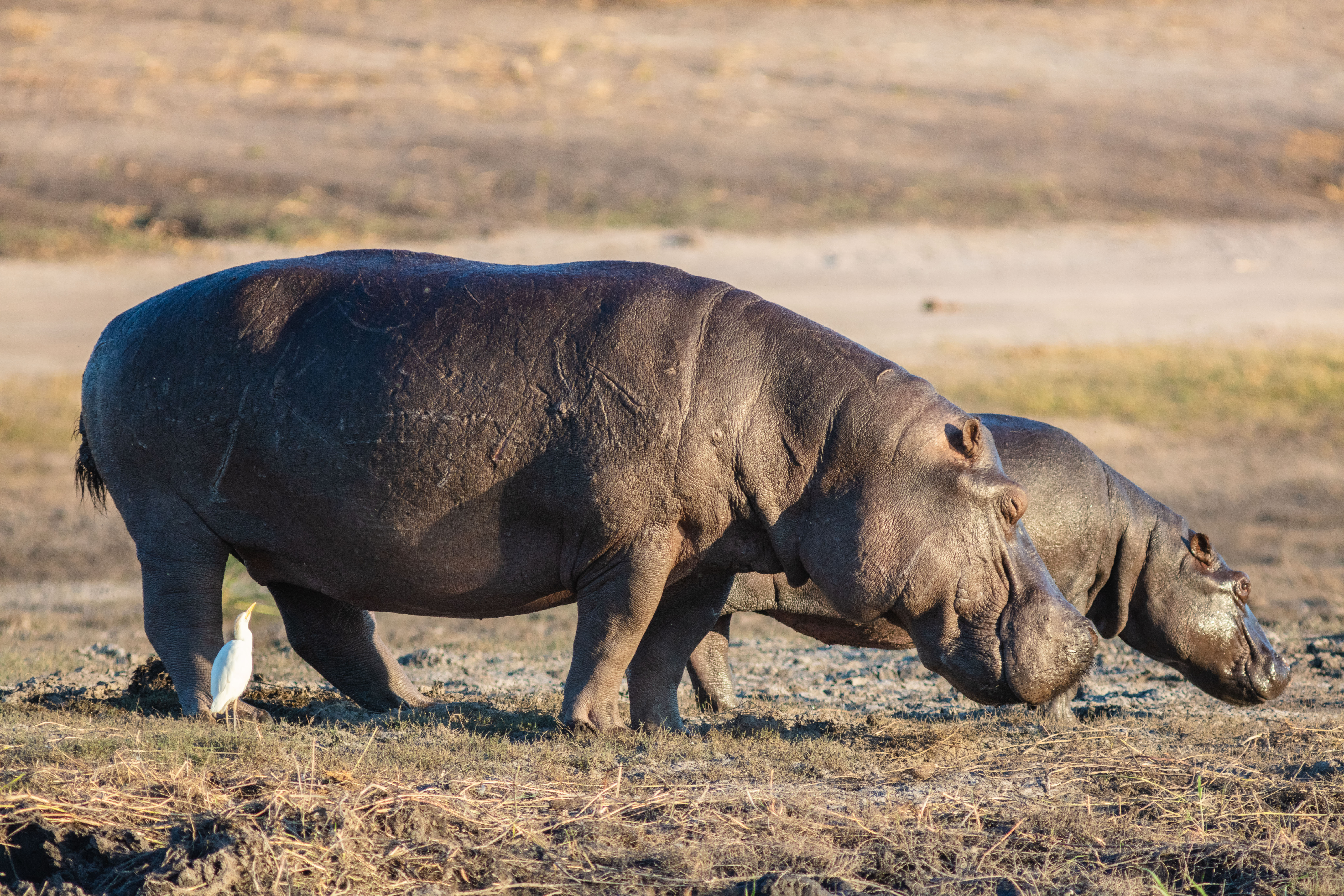 Hippos (Hippopotamus amphibius), Chobe National Park, Botswana